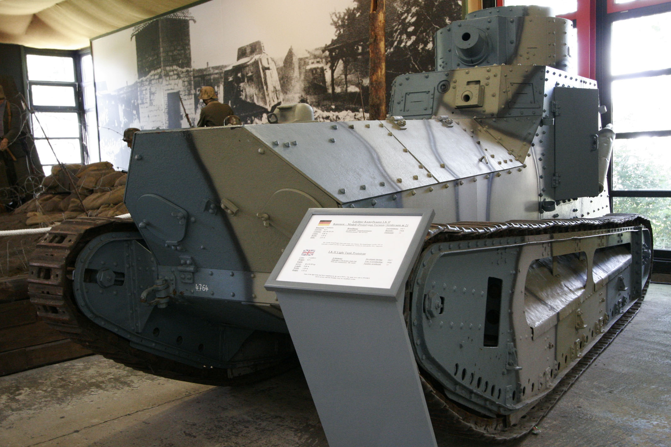 LK II Cavalry Tank (prototype) on display at the Deutsches Panzermuseum Munster , Germany.